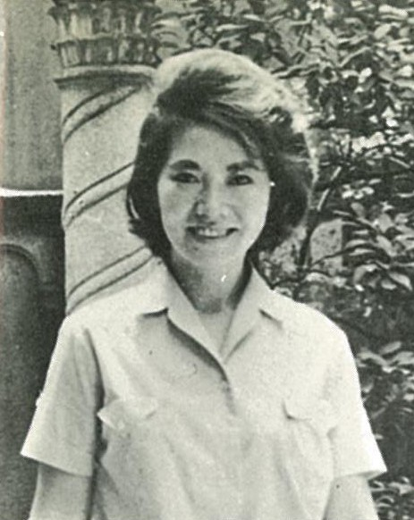 Masako Togawa.Japanese novelist, vocalist and the actress.